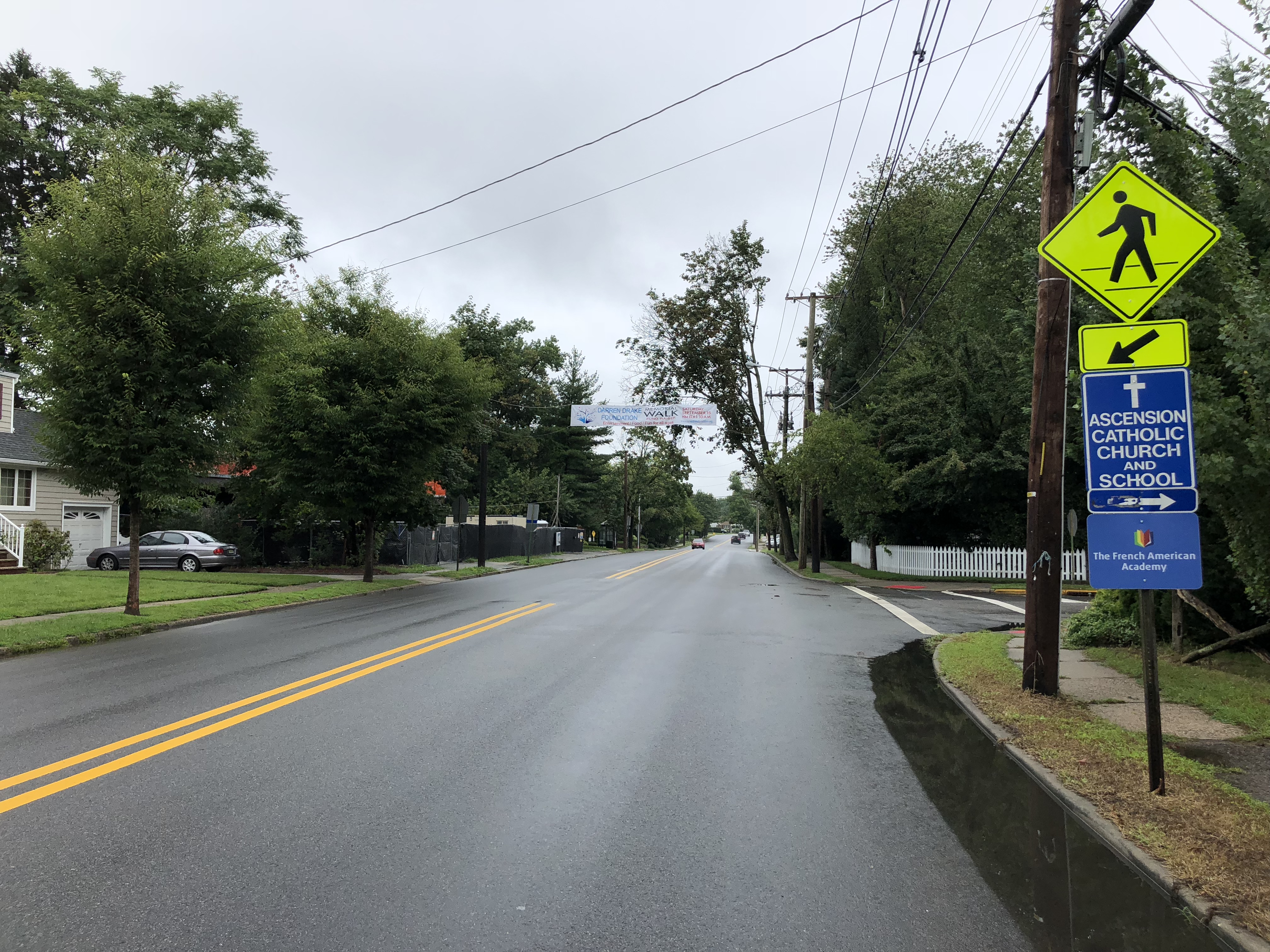 View north along Bergen County Route 41 (River Road) at Rambler Avenue in New Milford, Bergen County, New Jersey